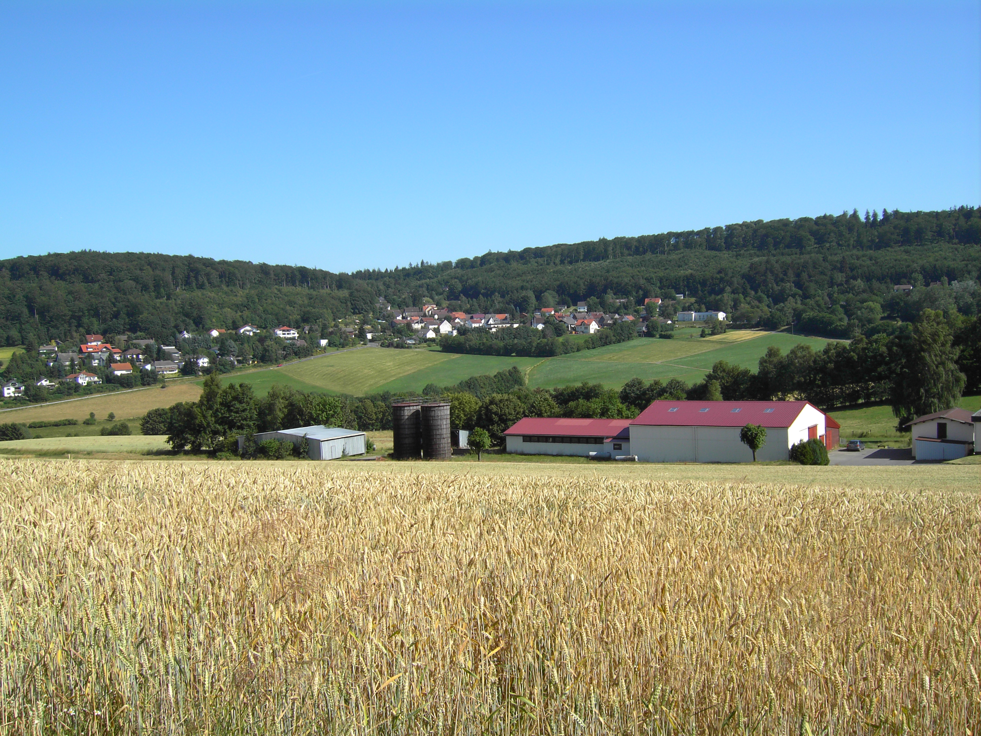 The village "Mauloff" in the Taunus Mountains. (Weilrod)